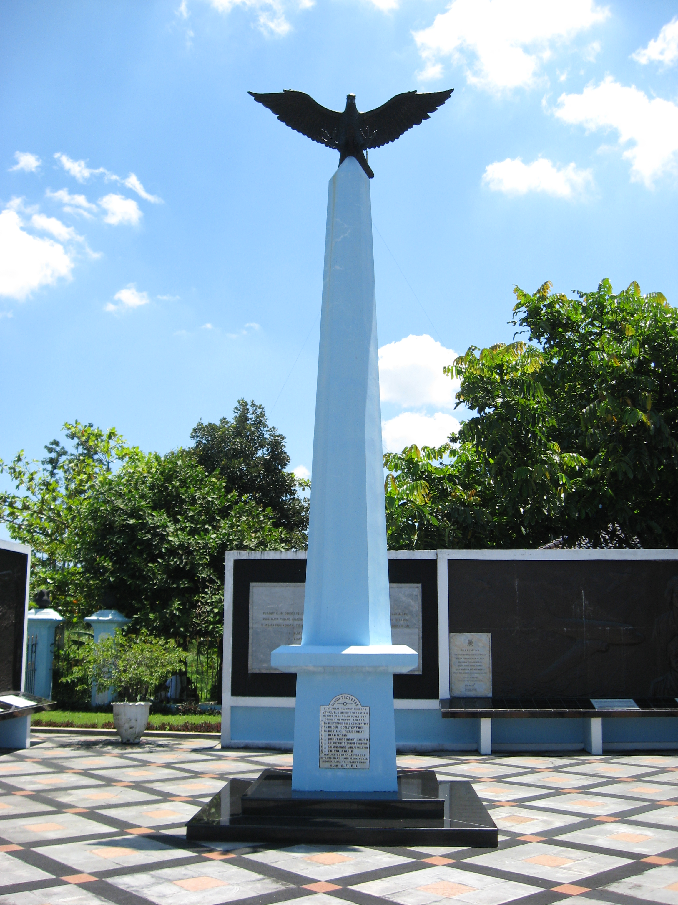 A memorial to the crash of the Dakota VT-CLA in Ngoto, Bantul